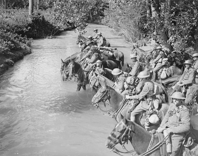 The Hundred Days Offensive, August-november 1918 Cavalry in reserve halted in the Authie River to water the horses, Auxi-le-Chateau, 17th September 1918.